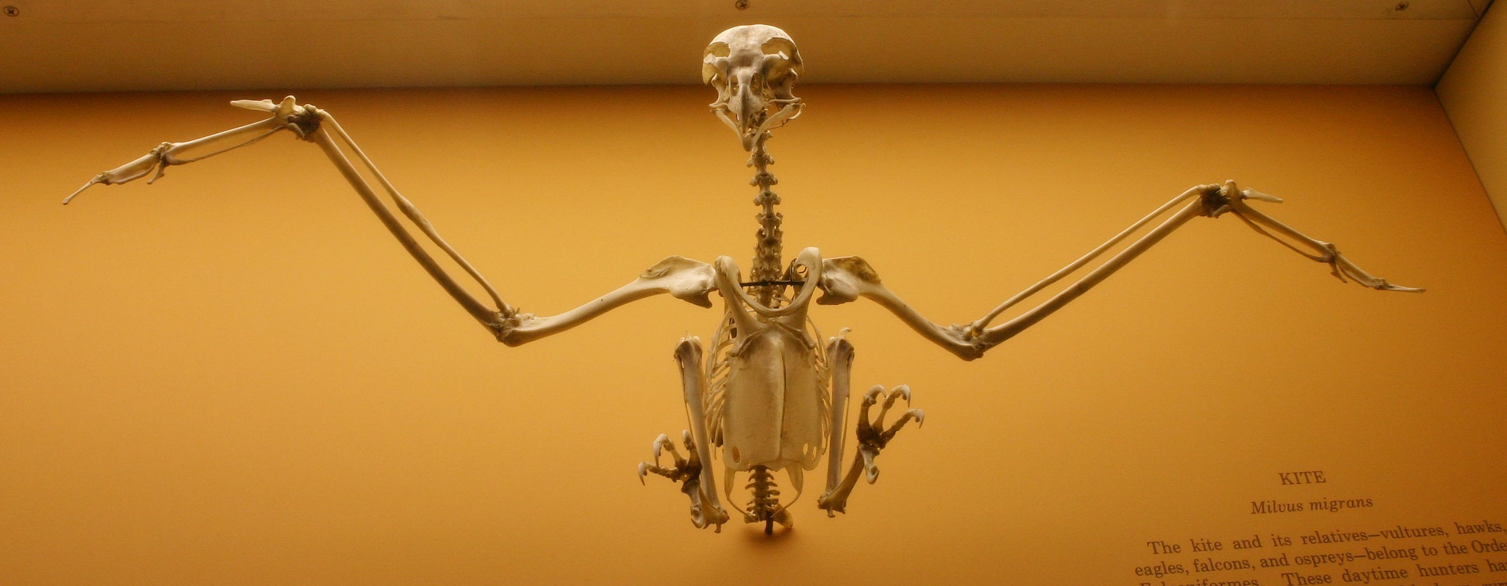 A Black Kite skeleton at National Museum of Natural History, National Mall, Washington, D.C., USA.